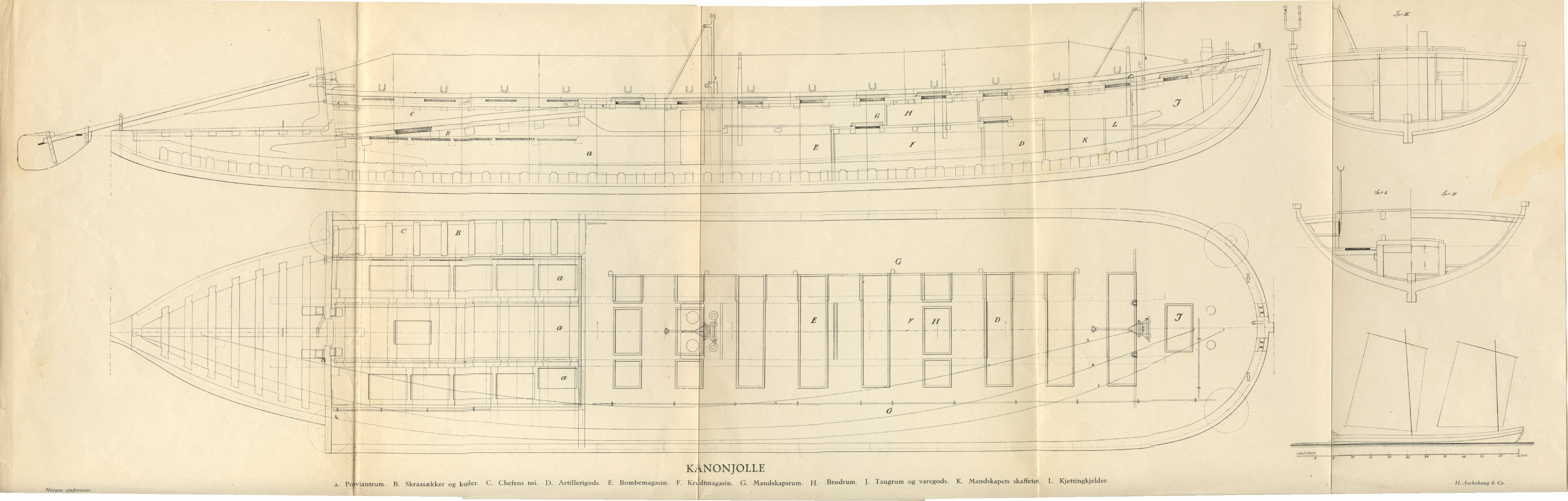 A drawing of a Norwegian kanonjolle ("gun yawl"). These small, cheap vessels were armed with one 24-pound cannon aft, and sometimes two additional howitzers. The main weapon was aimed backwards; on the drawing one can see where the cannon was placed, in the aft of the boat, where two "skids" are visible, angling upwards towards the bow of the boat, to reduce the recoil. The cannon was fixed, so to aim the cannon sideways, the whole vessel had to be turned. In combat, the vessel was rowed by its crew, for longer trips, masts were raised and sails were used. The Norwegian Navy used and constructed these vessels from 1600 until the middle- and last part of the 1800s, when they, of course, were completely obsolete. Despite their size, they made good use of themselves, protecting the long coast and narrow fjords with great success against larger vessels, such as the English frigate "Tartar", which escaped, heavily damaged, after a battle with three "kanonjoller" outside Bergen in 1808, known as the "Battle of Alvøen". An English translation of the text below would be: a: Provisions, b: Round shots, c: Captain's locker, d: Artillerygoods, e: Bombs, f: Powder, g: Men's lockers, H: Bread, K: Crew's Cutlery L: Chains. (Note that the letter "I" is missing, probably due to possibility of confusion with other letters.)